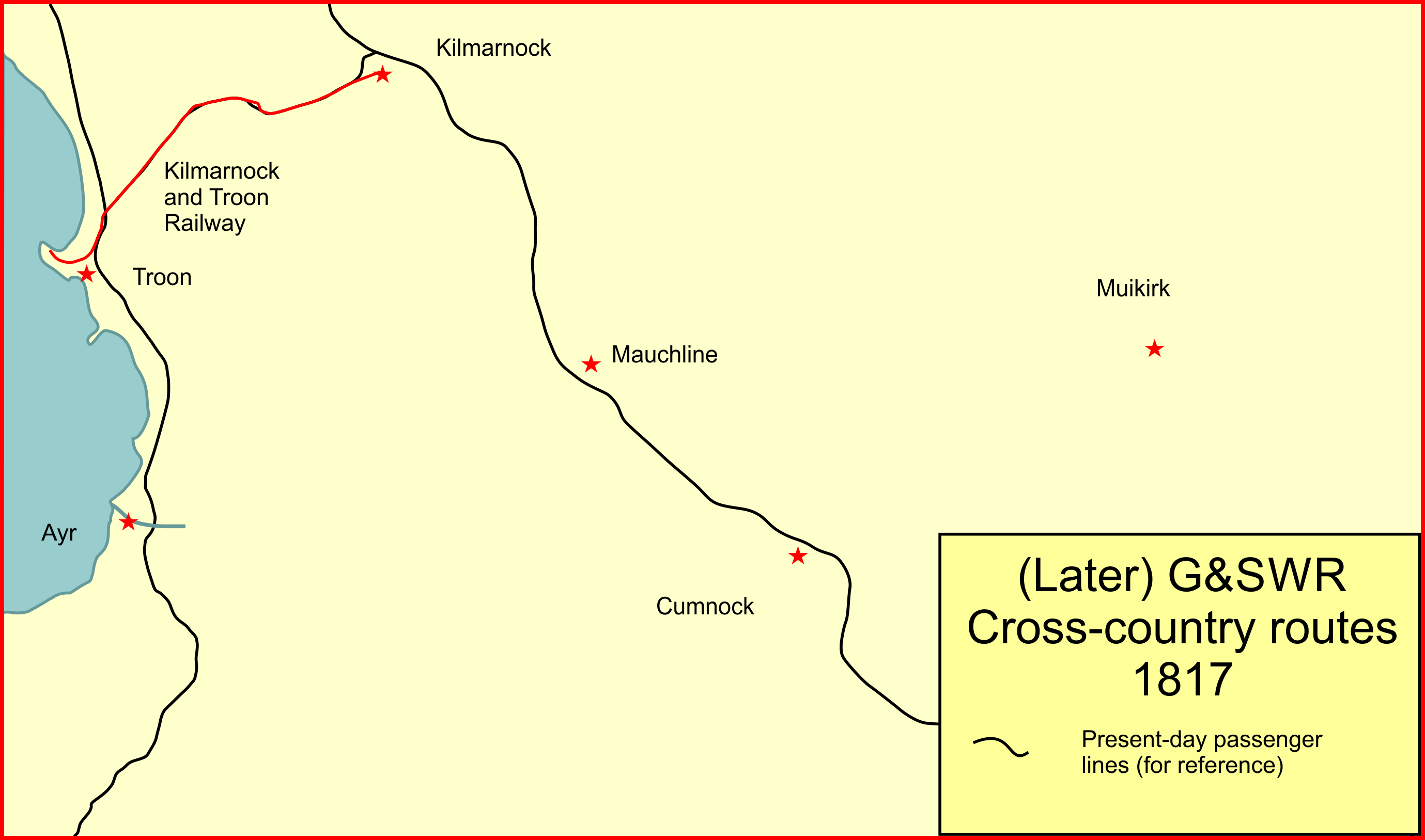 System map of cross-country lines of the Glasgow and South Western Railway in 1817